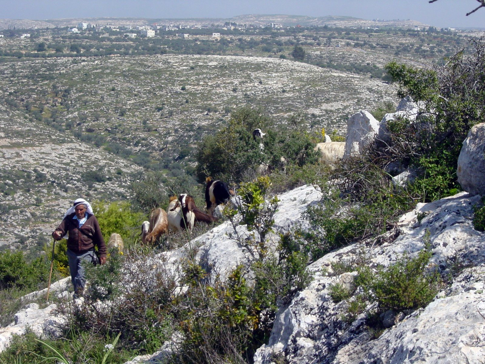 A farmer in Bil'in, a village of Palestine